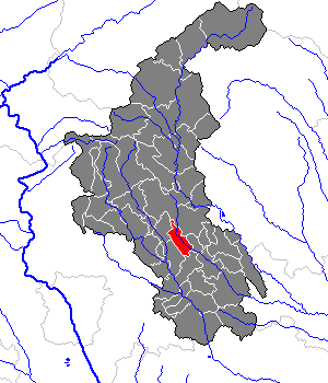 This map shows the area of the Gemeinde (municipality) Etzersdorf-Rollsdorf in the Bezirk (district) Weiz, Styria, Austria.